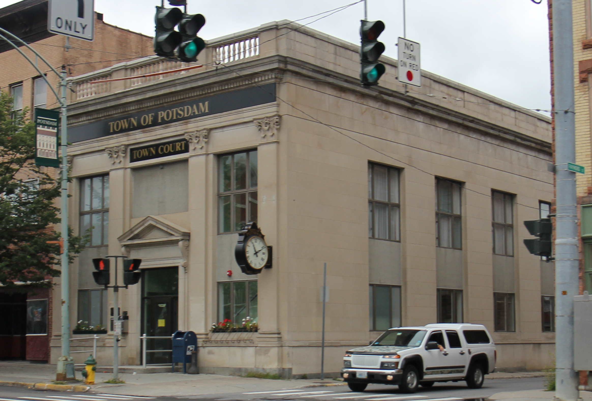 The town court for Potsdam, NY along US11.